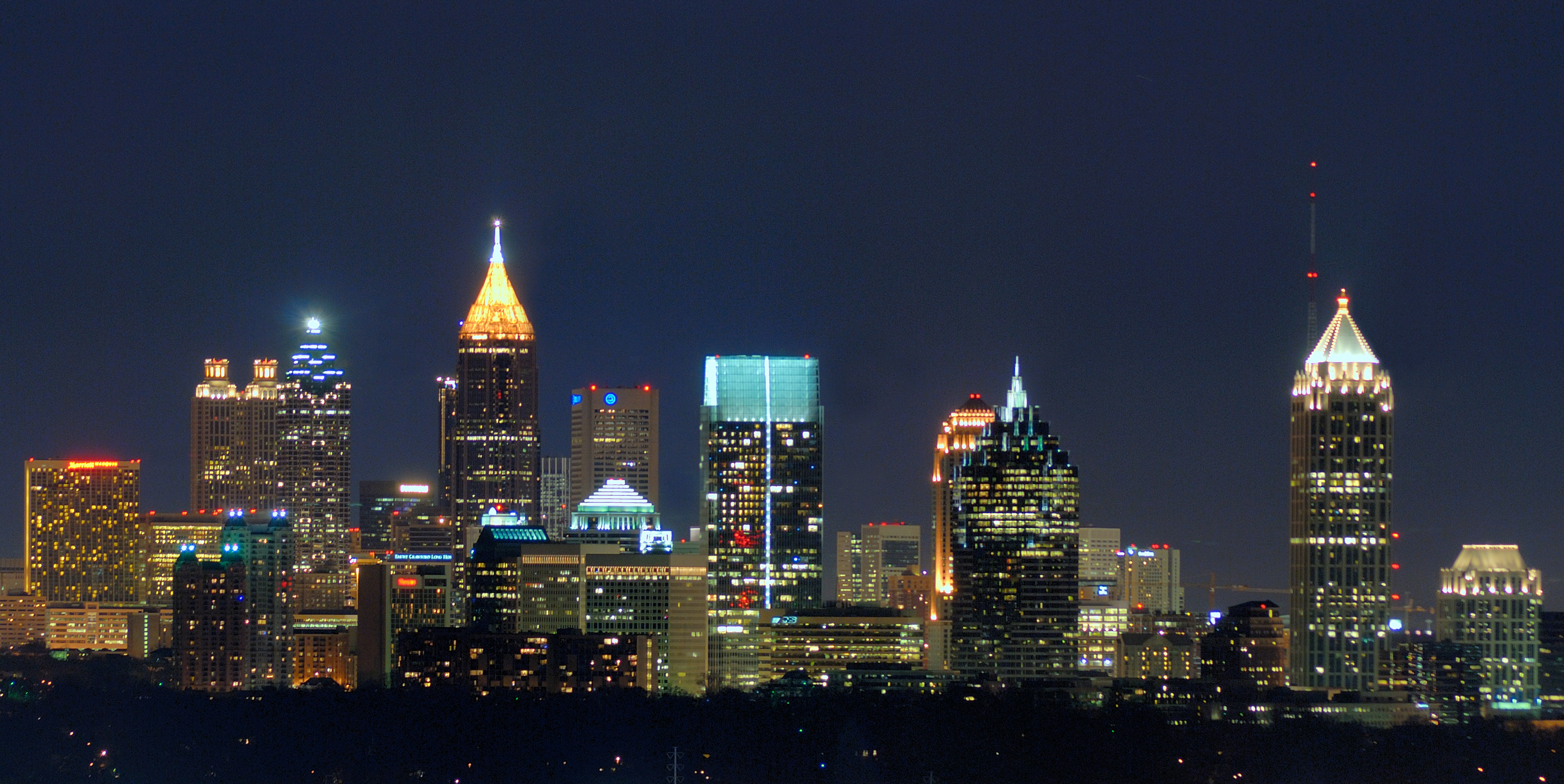 Photoshopped image of Atlanta's skyline.